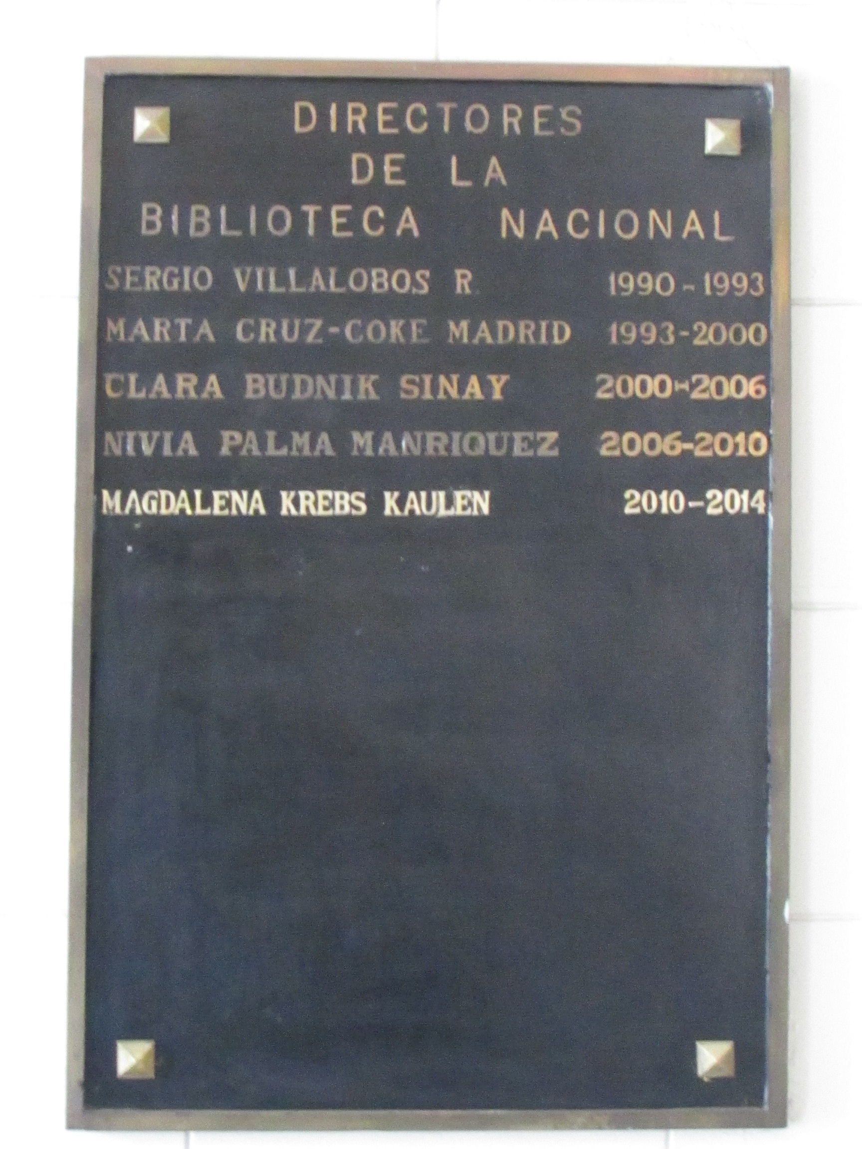 Signs of the Directors of the National Library in the vestibule of the National Library, near Alameda Avenue.